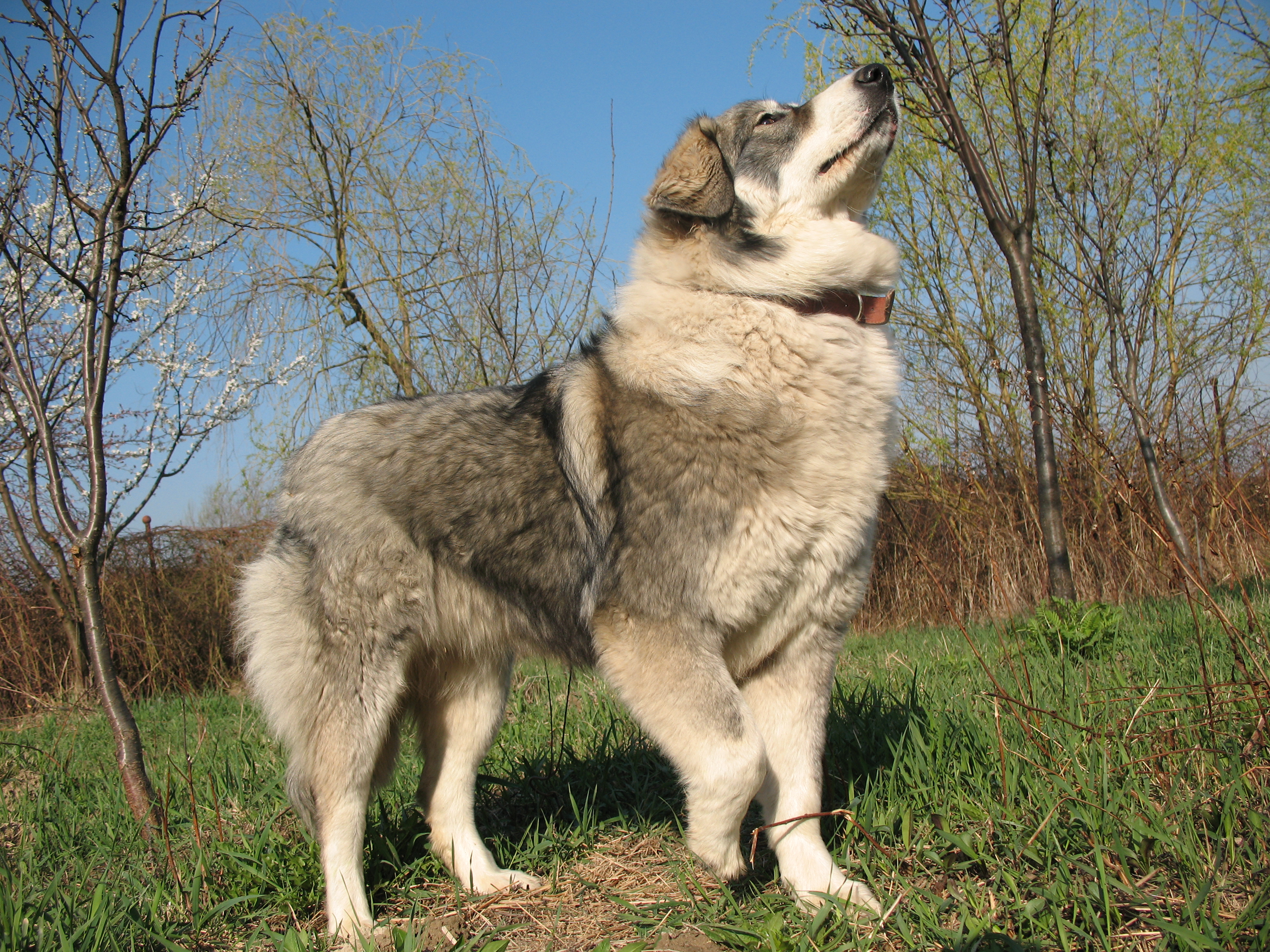 Possibly a Carpathian sheepdog or Bucovina sheepdog